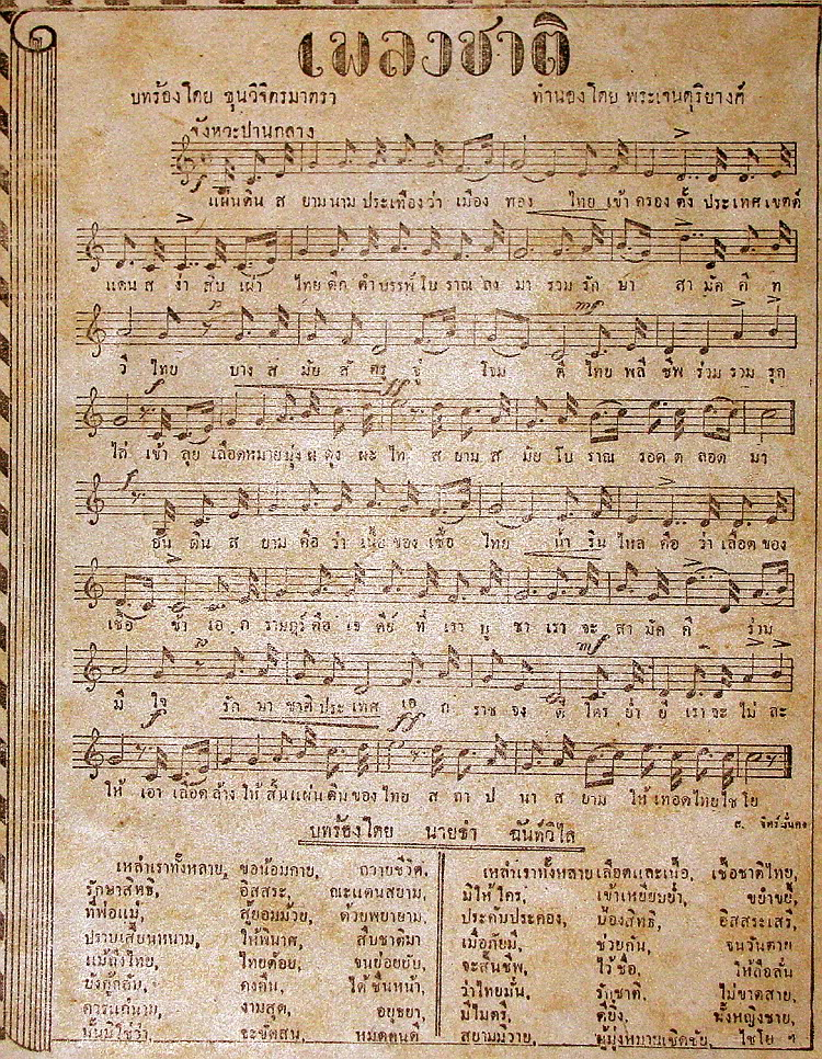 Sheet music of the official version of "Phleng Chat" ("National Anthem") in 1934. Music by Phra Jenduriyang (Peter Fite) in 1932, lyrics by Khun Vichitmatra (Sa-nga Kanchanagabhandhu) and Chan Khamvilai. Official adopted as the National Anthem of Siam from 1934 until 1939 when the country was changed her name as "Thailand" in 1939.